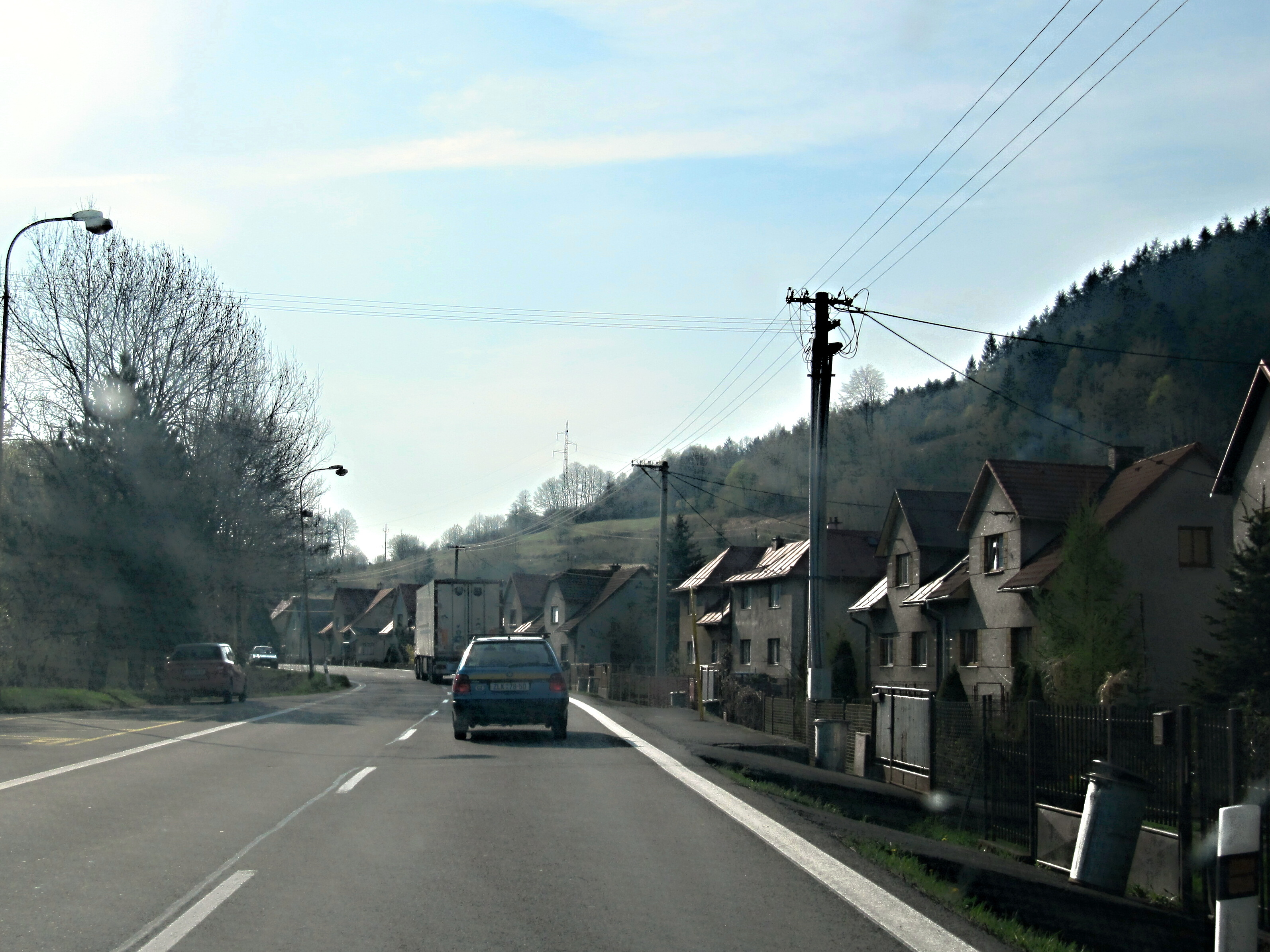 Lužná in Vsetín District, Czech Republic. Main road.